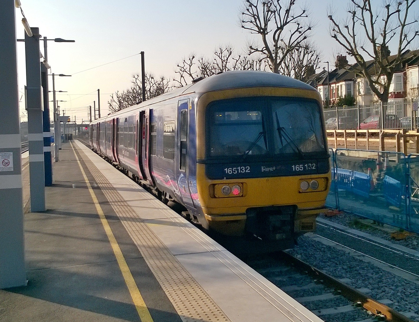 A Great Western Railway Class 165 at the bay platform at West Ealing